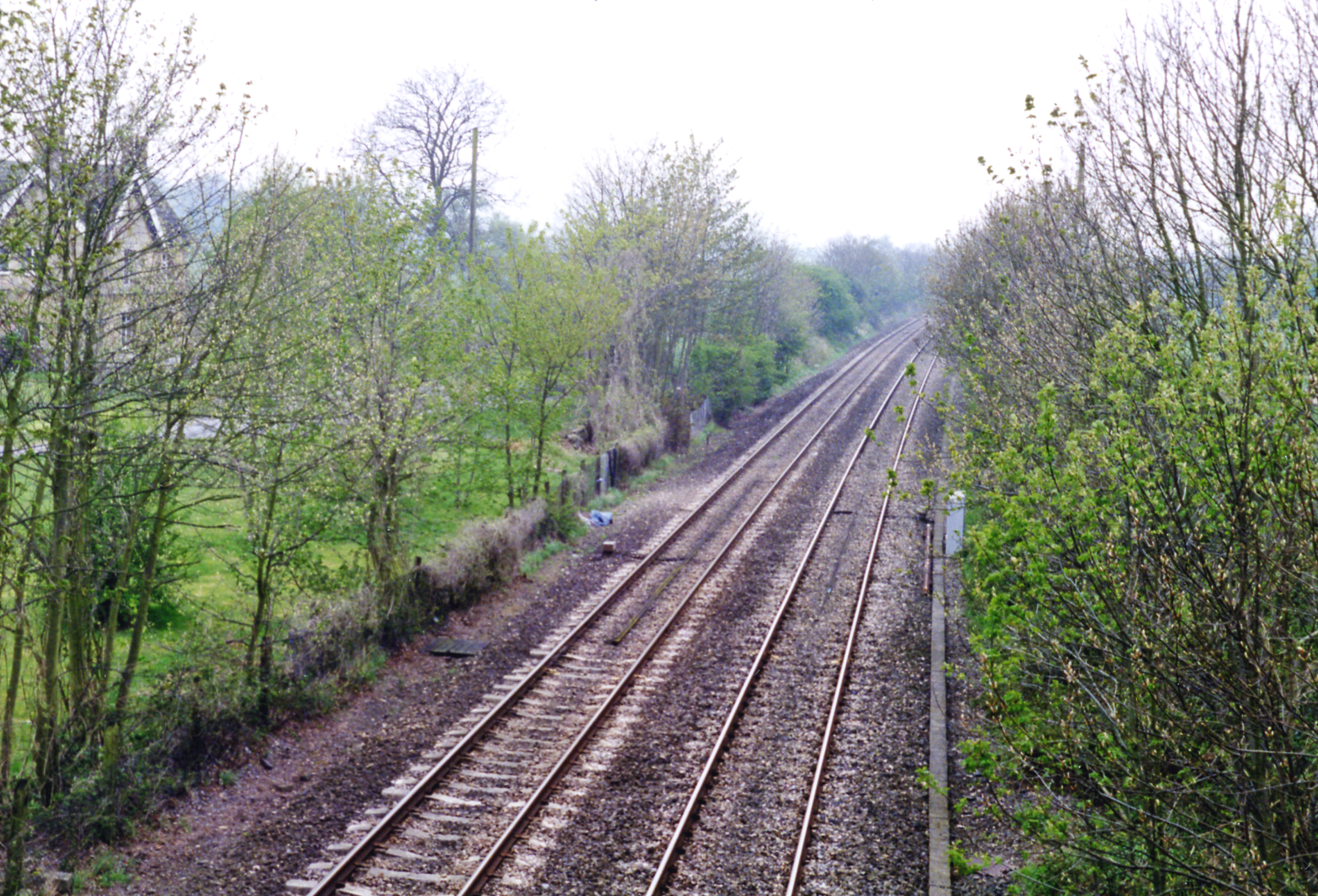 Site of Frocester station, 1995. View SW, towards Bristol: ex-Midland Birmingham - Bristol main line - also used by GWR Midlands - Bristol and the West traffic. Frocester station was closed 11/12/61 and was on this south side of the bridge